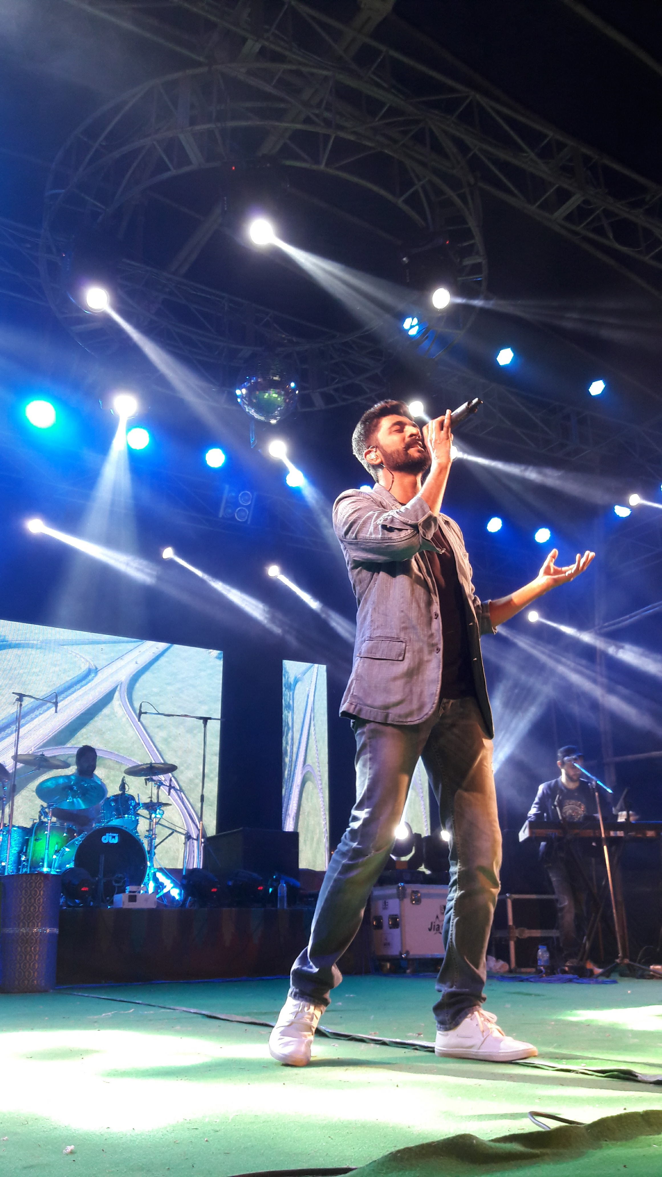 Mohammad irfan